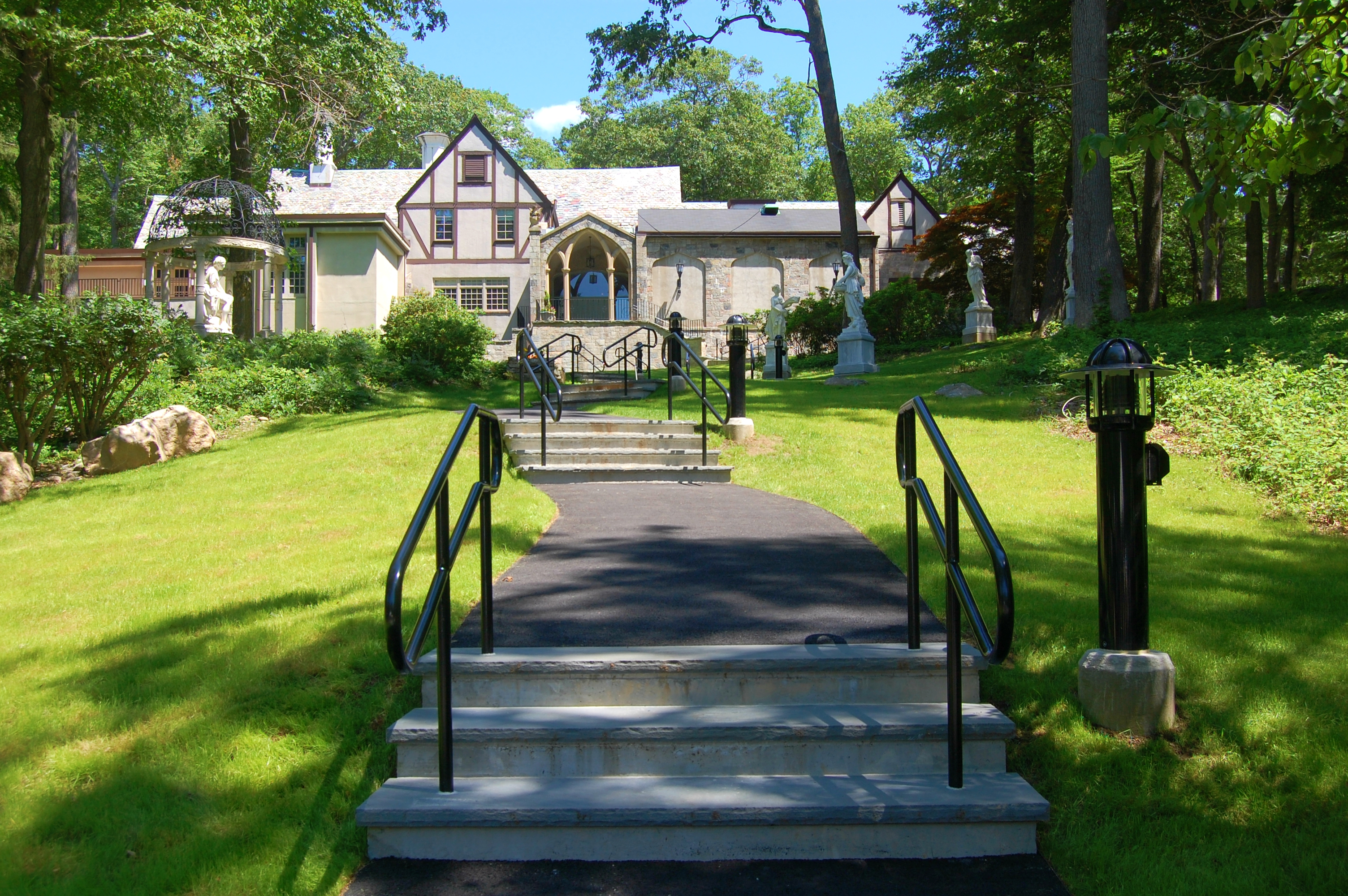 Henri Bendel Mansion at the Stamford Museum & Nature Center in Stamford, Connecticut.